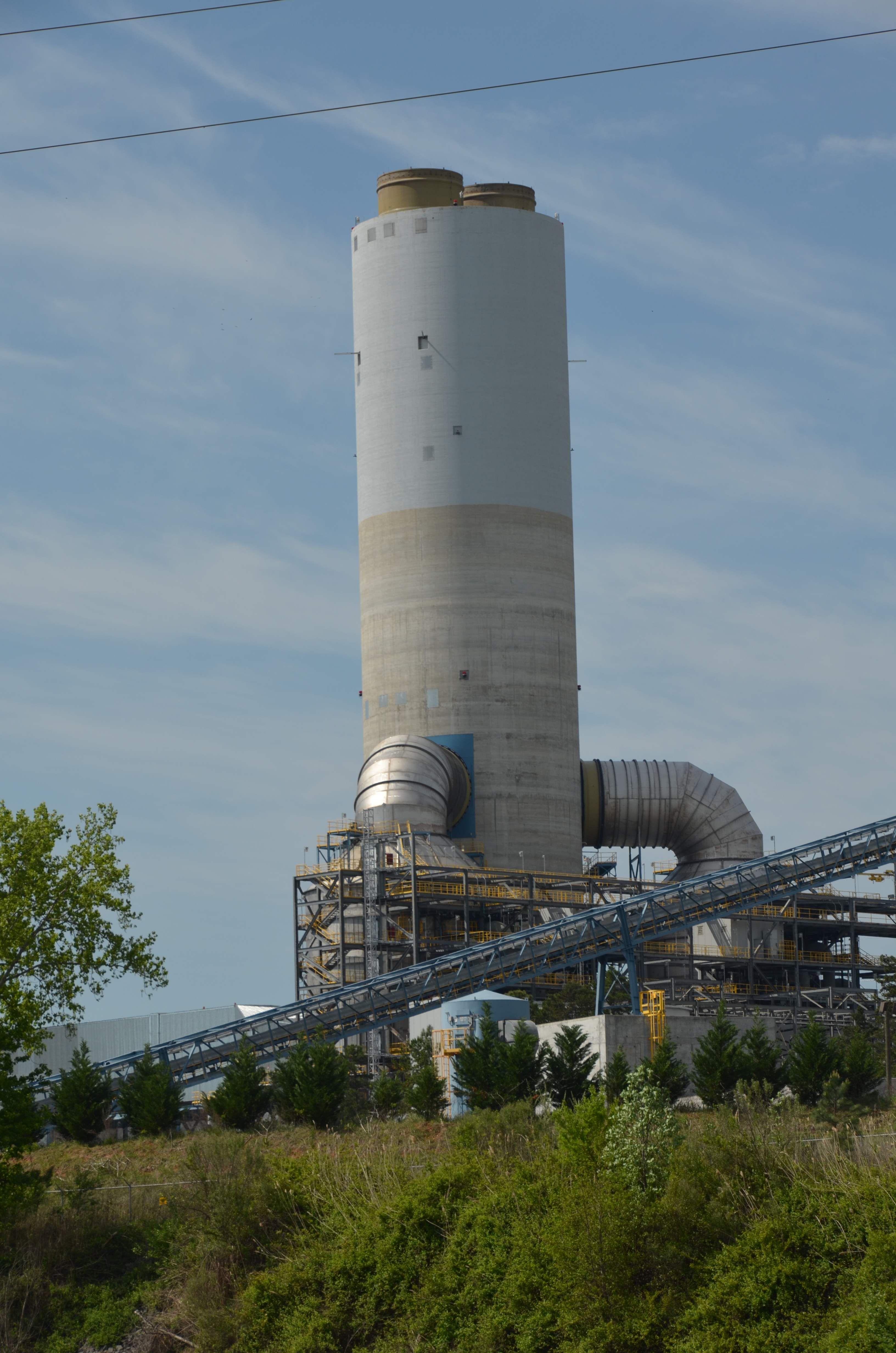 G G Allen Steam Plant, scrubber. Coal power plant, emissions control device.